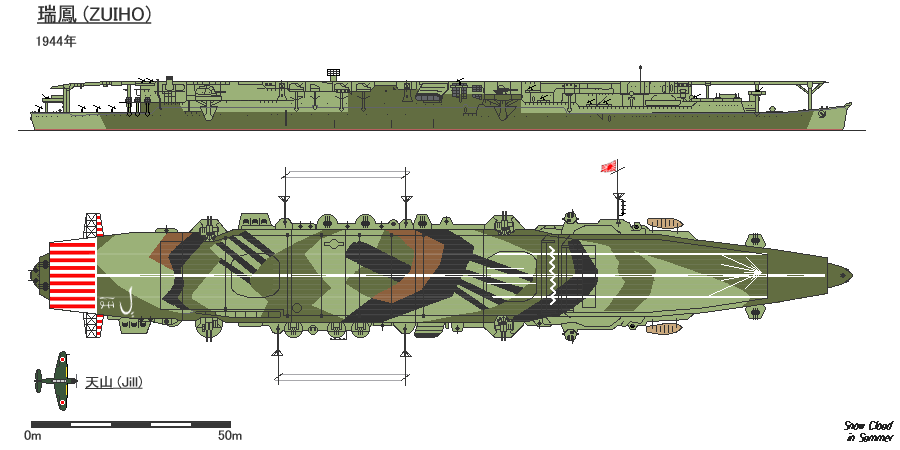 Figure of Japanese aricraft carrier ZUIHO 1944. Part of painting and its colors are presumption. Position of rocket launchers is also presumption.